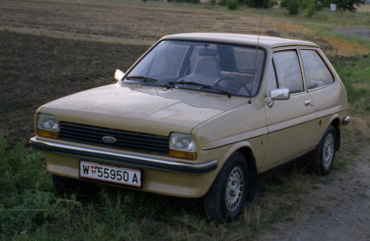 Ford Fiesta